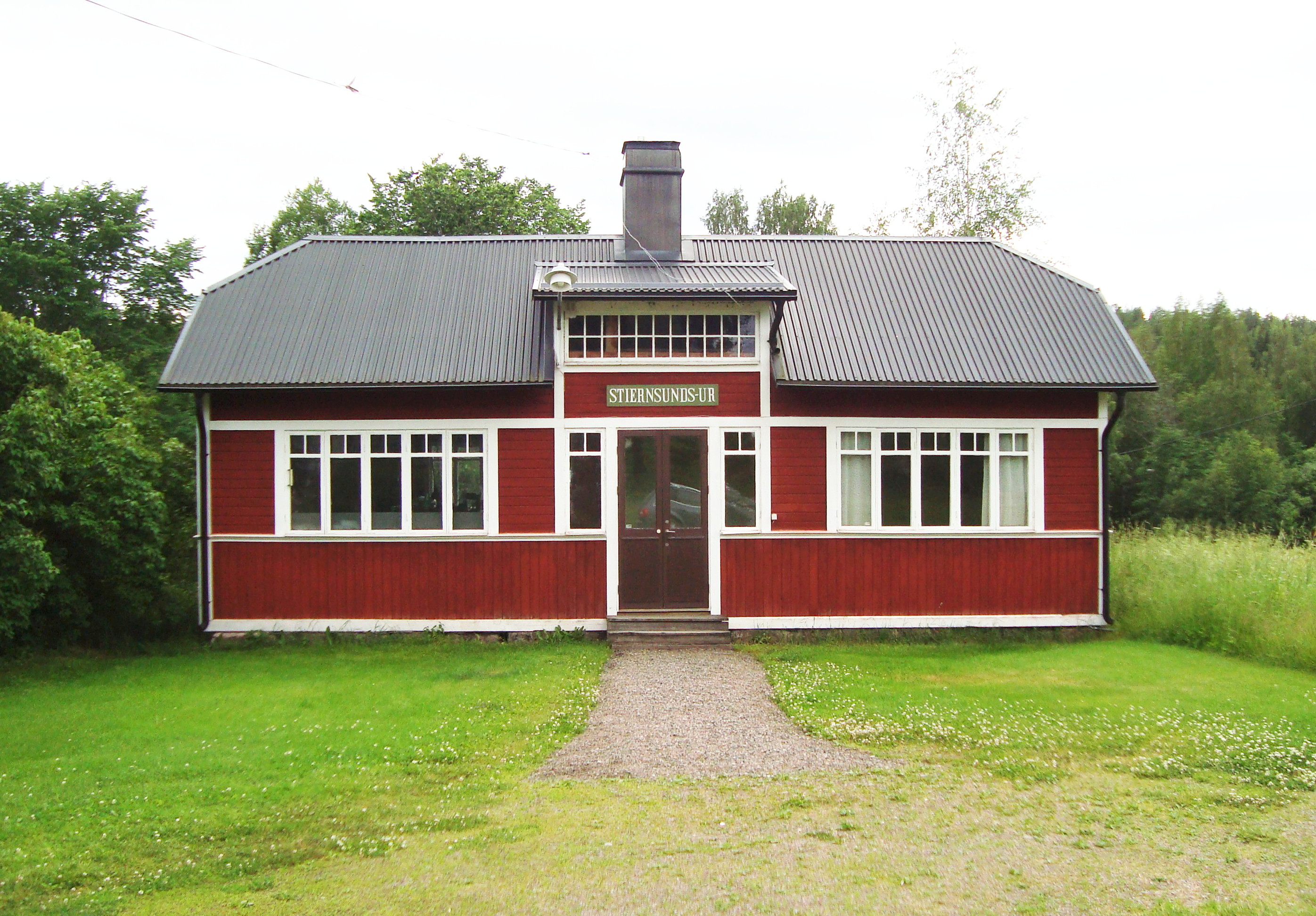 Chistopher Polhem's clock- and clockwork work, Stjärnsund, Hedemora Municipality, Sweden